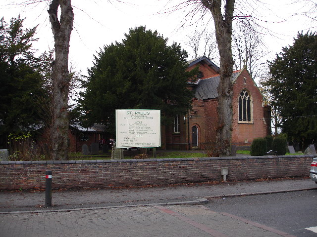 St Paul's parish church, Bedworth Road, Stockingford, Nuneaton, Warwickshire